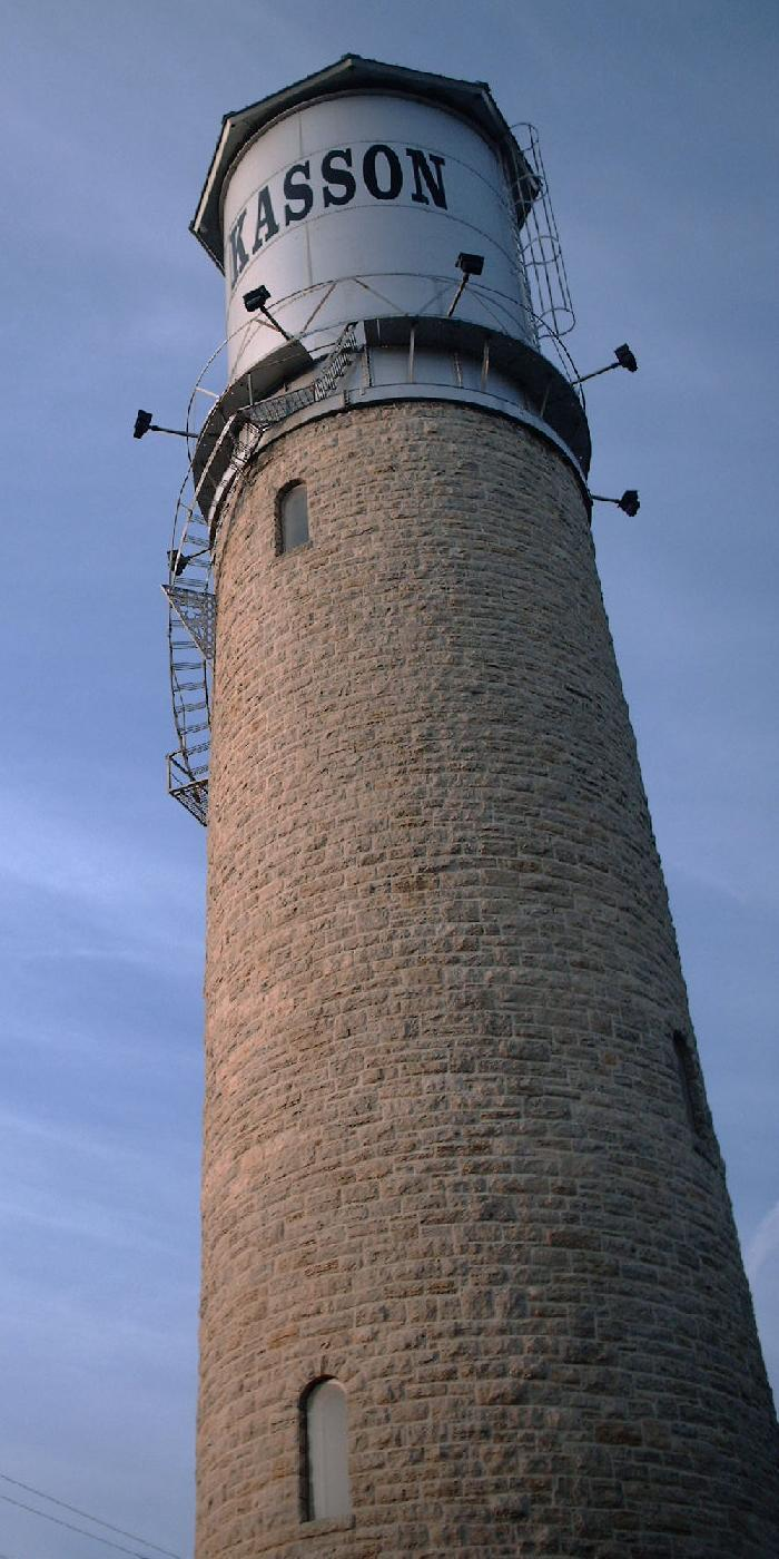 Historic stone water tower seen from the south in Kasson, Minnesota, United States